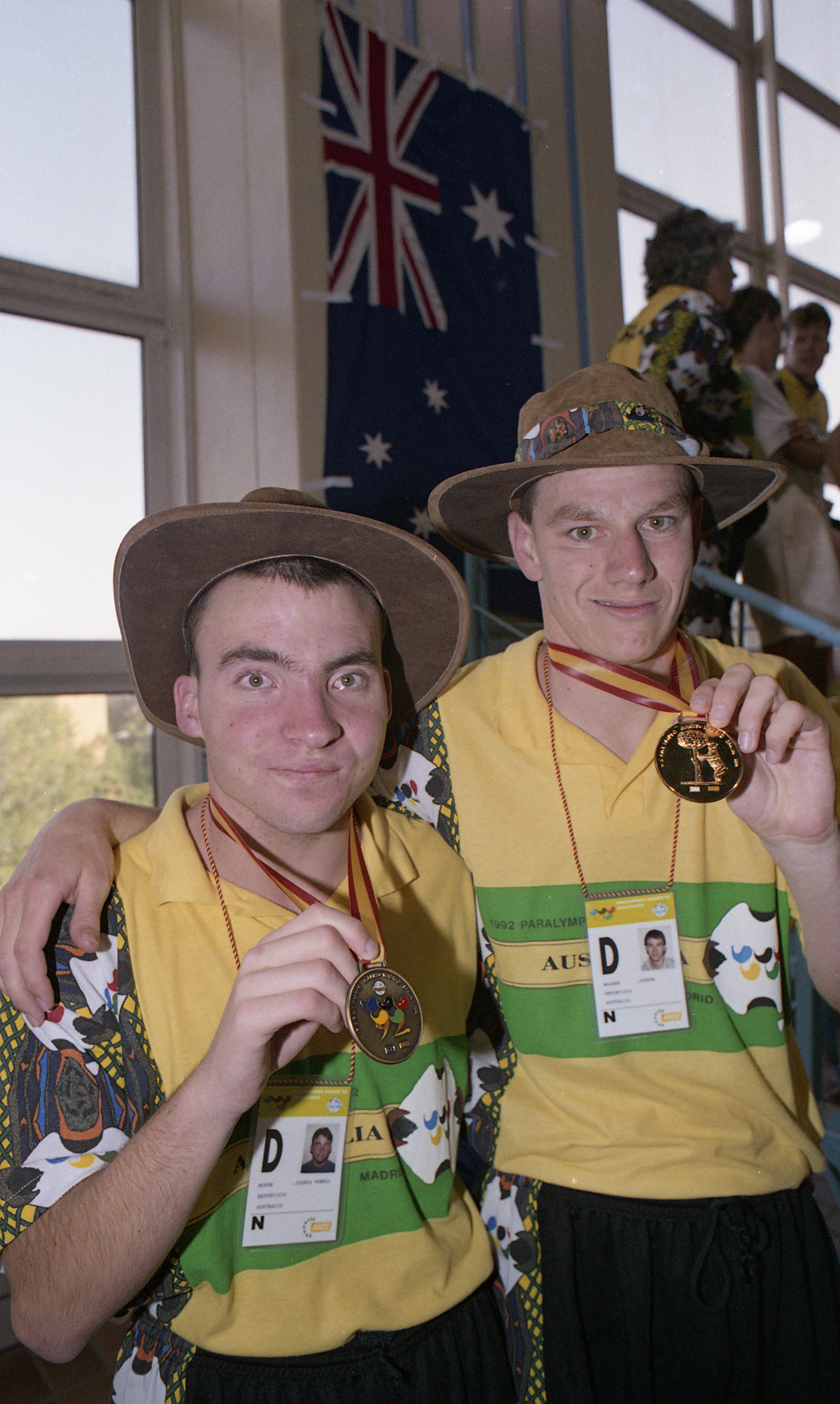 Swimmers Joshua Hofer (L) and Joseph Walker (R) were two of Australia's most successful athletes at the 1992 Madrid Paralympic Games for Persons with Mental Handicap, with 14 gold medals between them. Hofer won 5 gold medals and Walker won 9. Walker's tally remains the highest by an Australian athlete at any Paralympic Games.